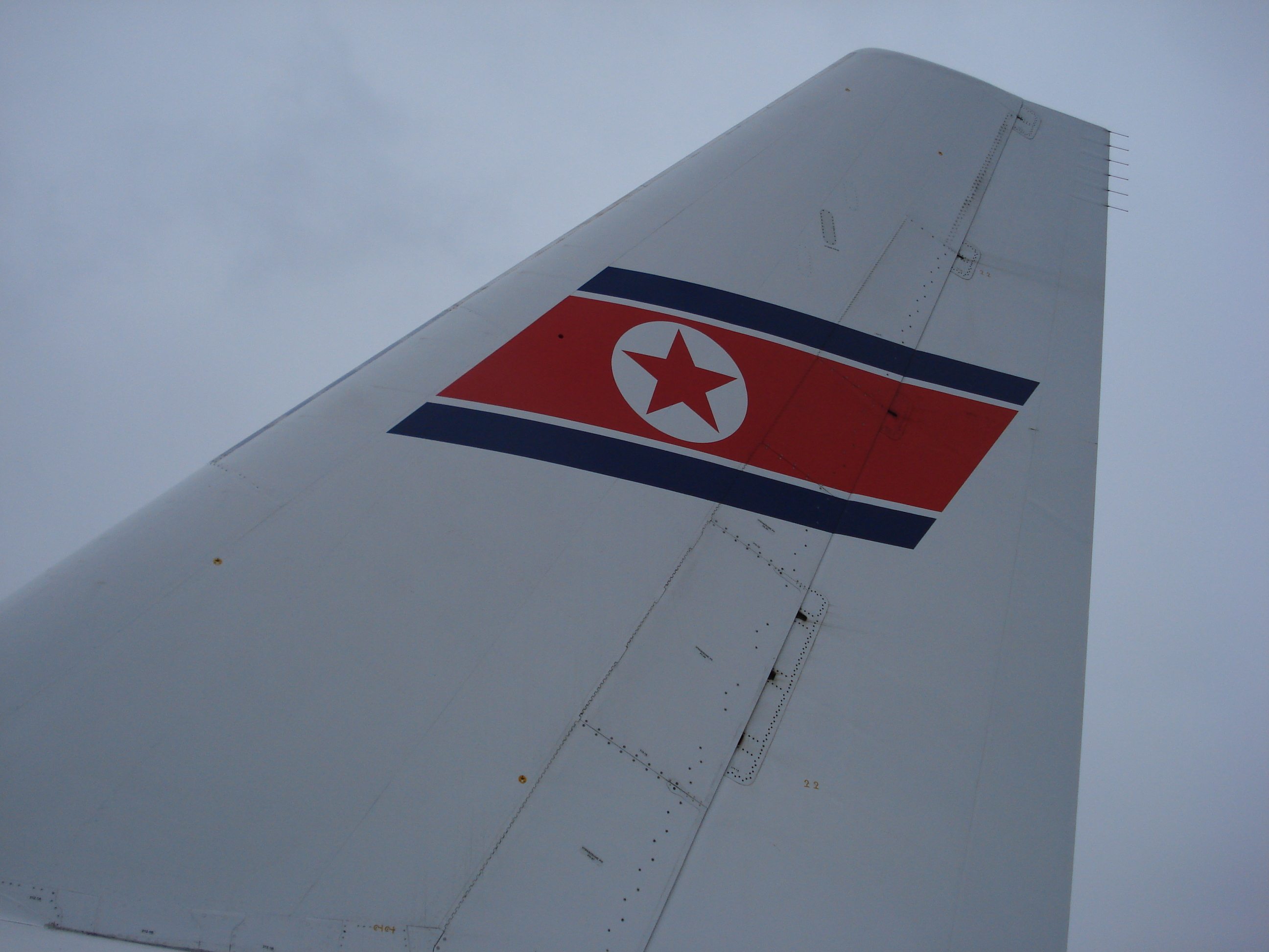 Air Koryo Tu-204 tail